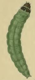 Stainton’s Natural History of the Tineina (1855–1873): Caryocolum cauligenella larva